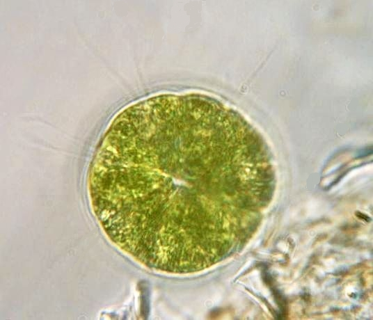 Pandorina flagellate colonial algae.